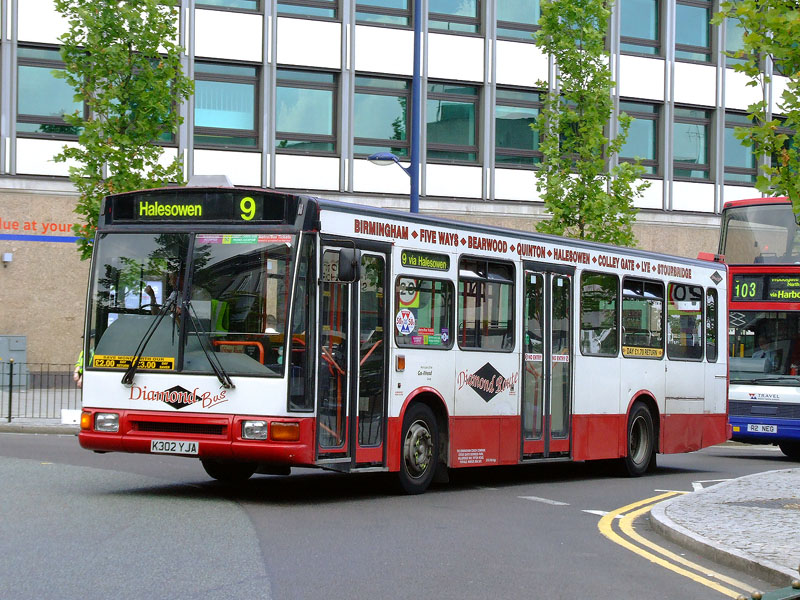 Go West Midlands' (trading as Diamond Bus) K302 YJA, a Dennis Lance/Northern Counties Paladin in Birmingham City Centre on route 9.